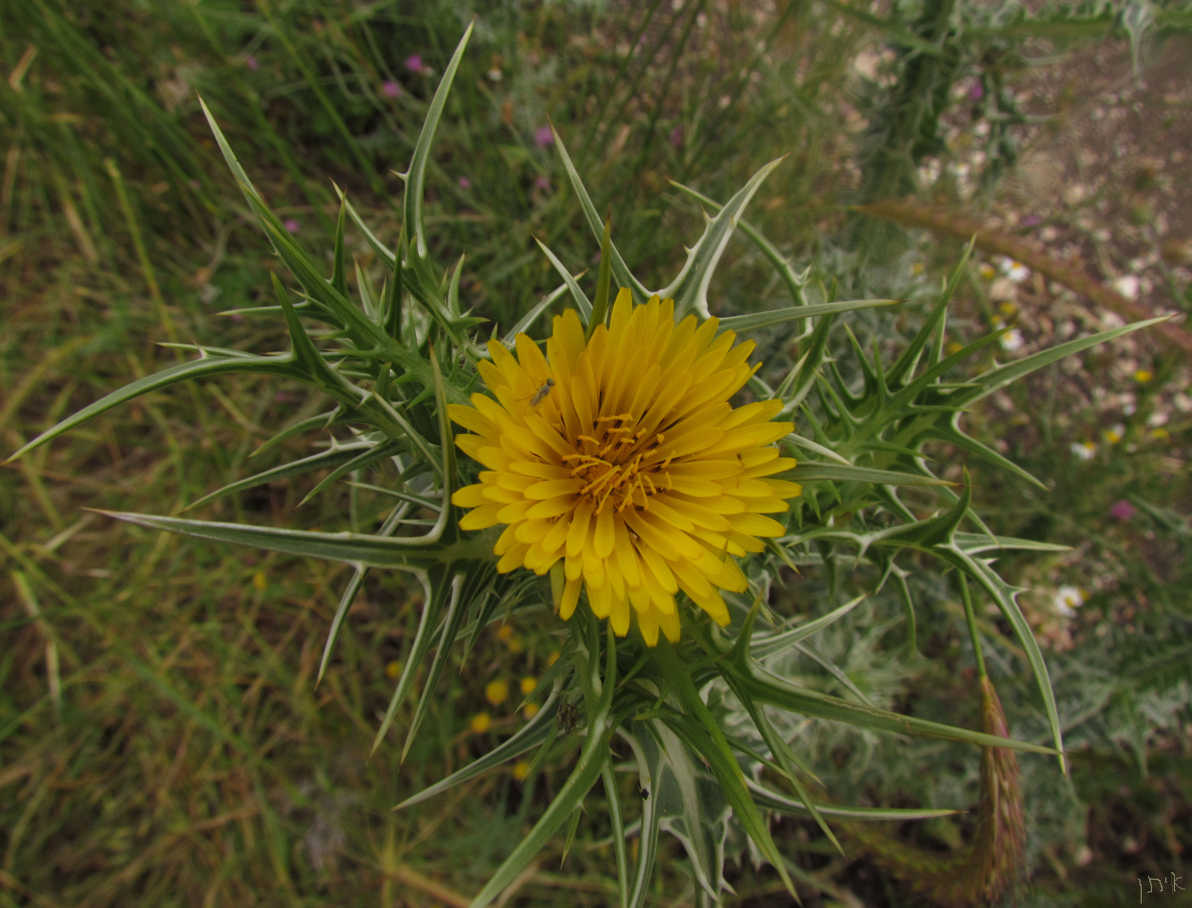 חוח עקוד - נחל סנין Scolymus maculatus - Spotted Golden Thistle